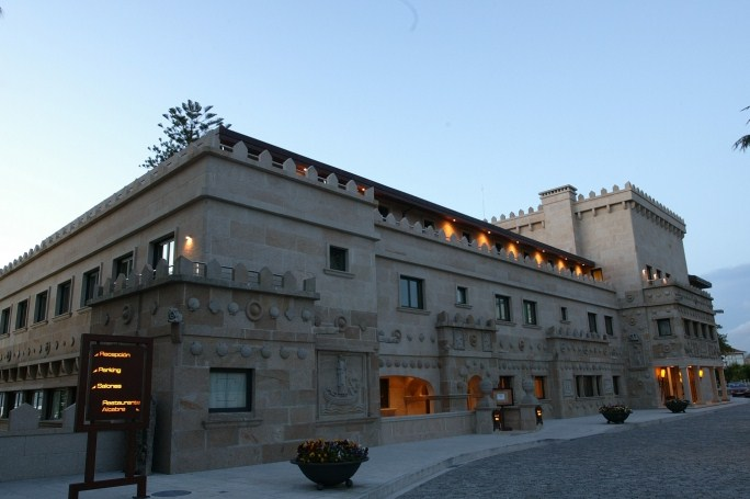 Pazo los Escudos main bulding